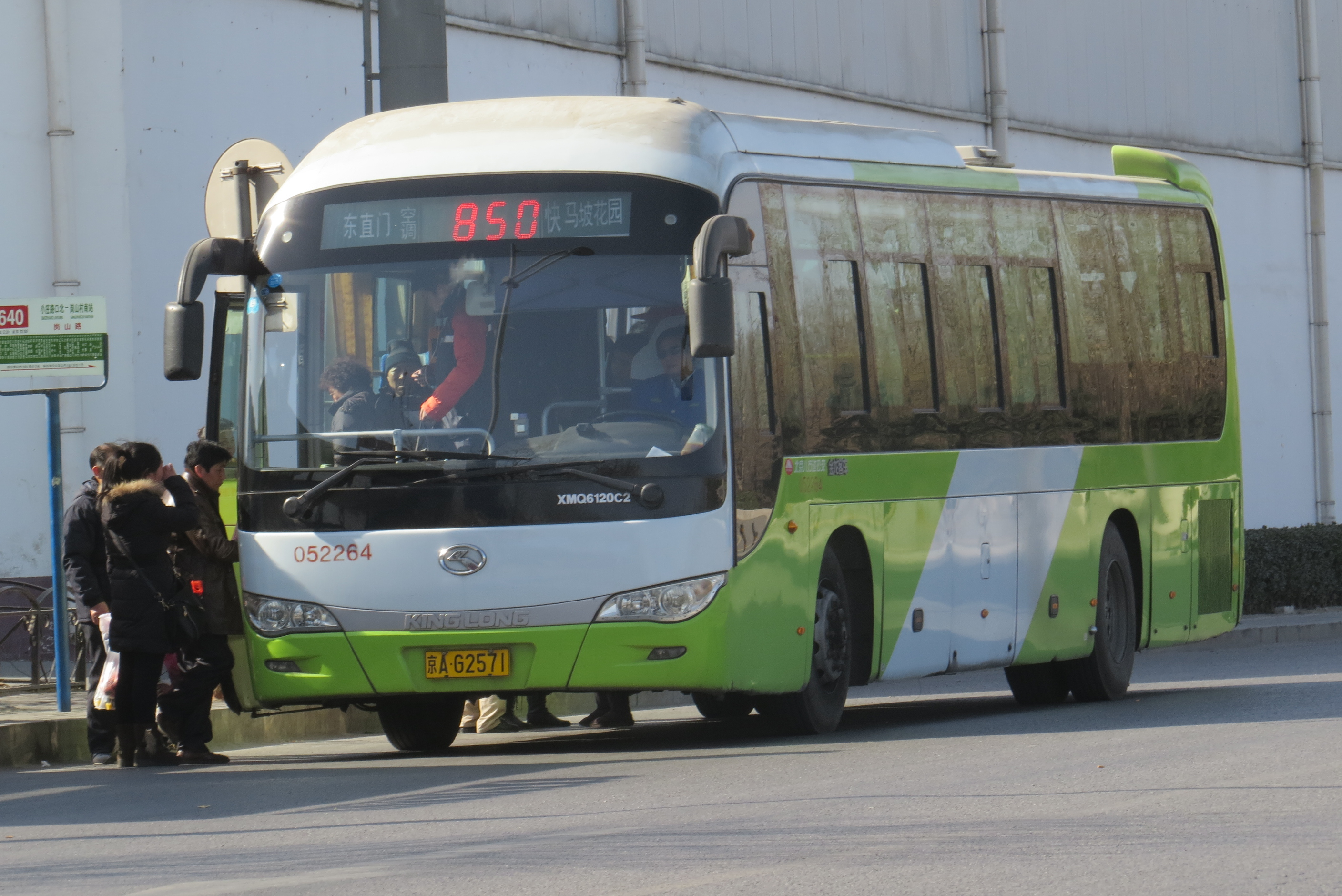 Just south of the runway 36R of Beijing Capital International Airport. In fact, this station is also known as "Cathay Market" in the stop reporter of 850.